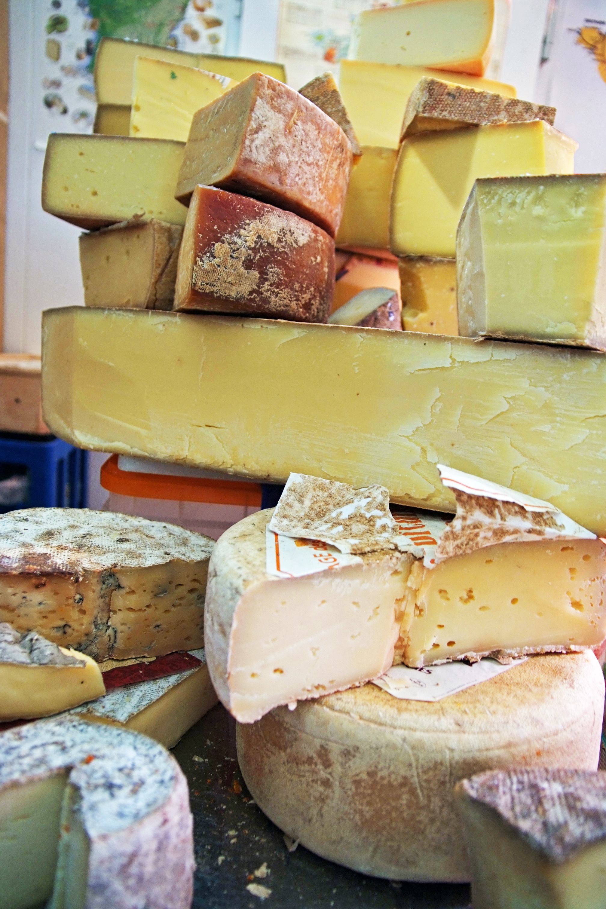 Different hard cheeses